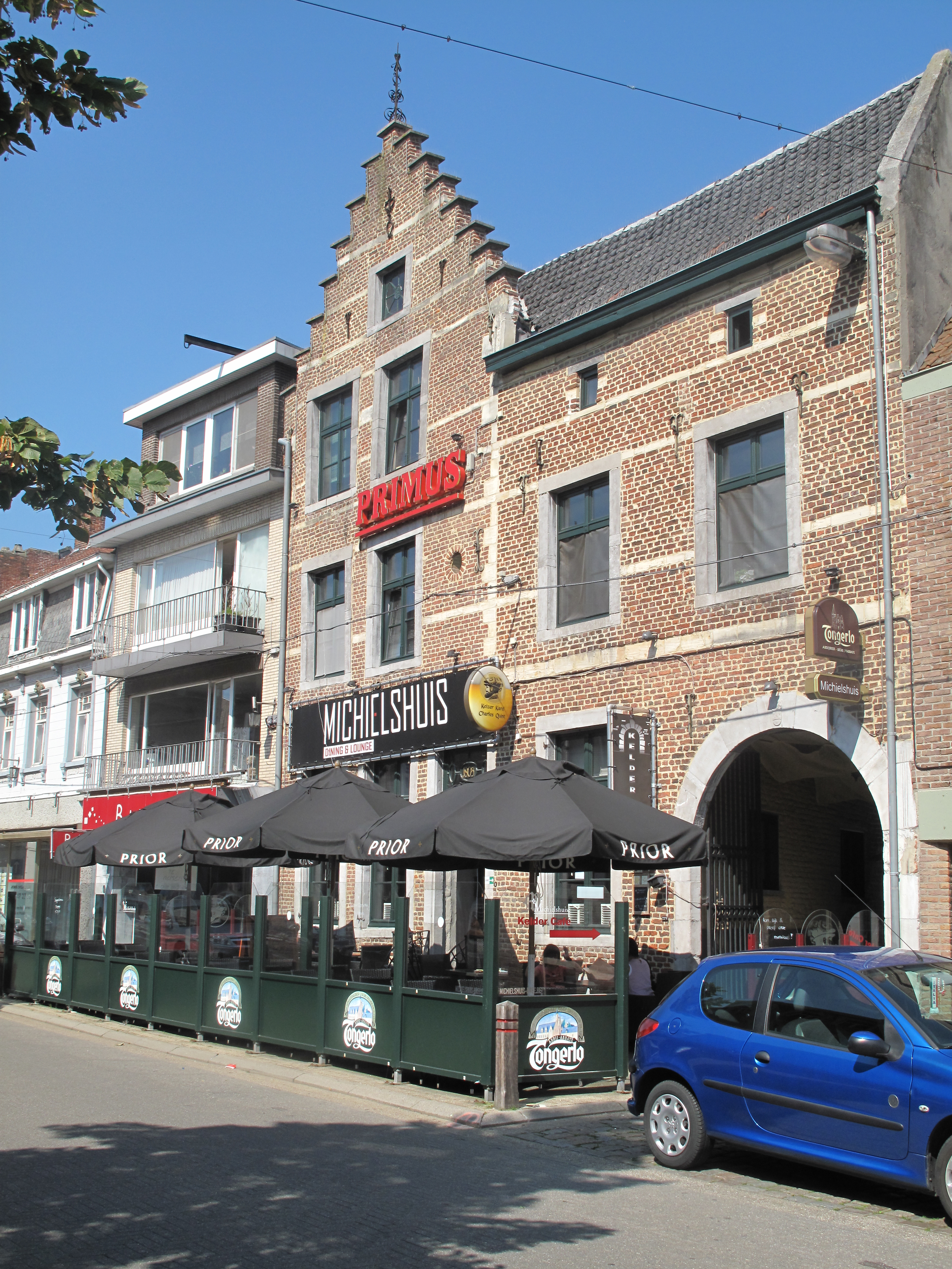 Bree, monumental house: Michielshuis Markt 8 RM70855